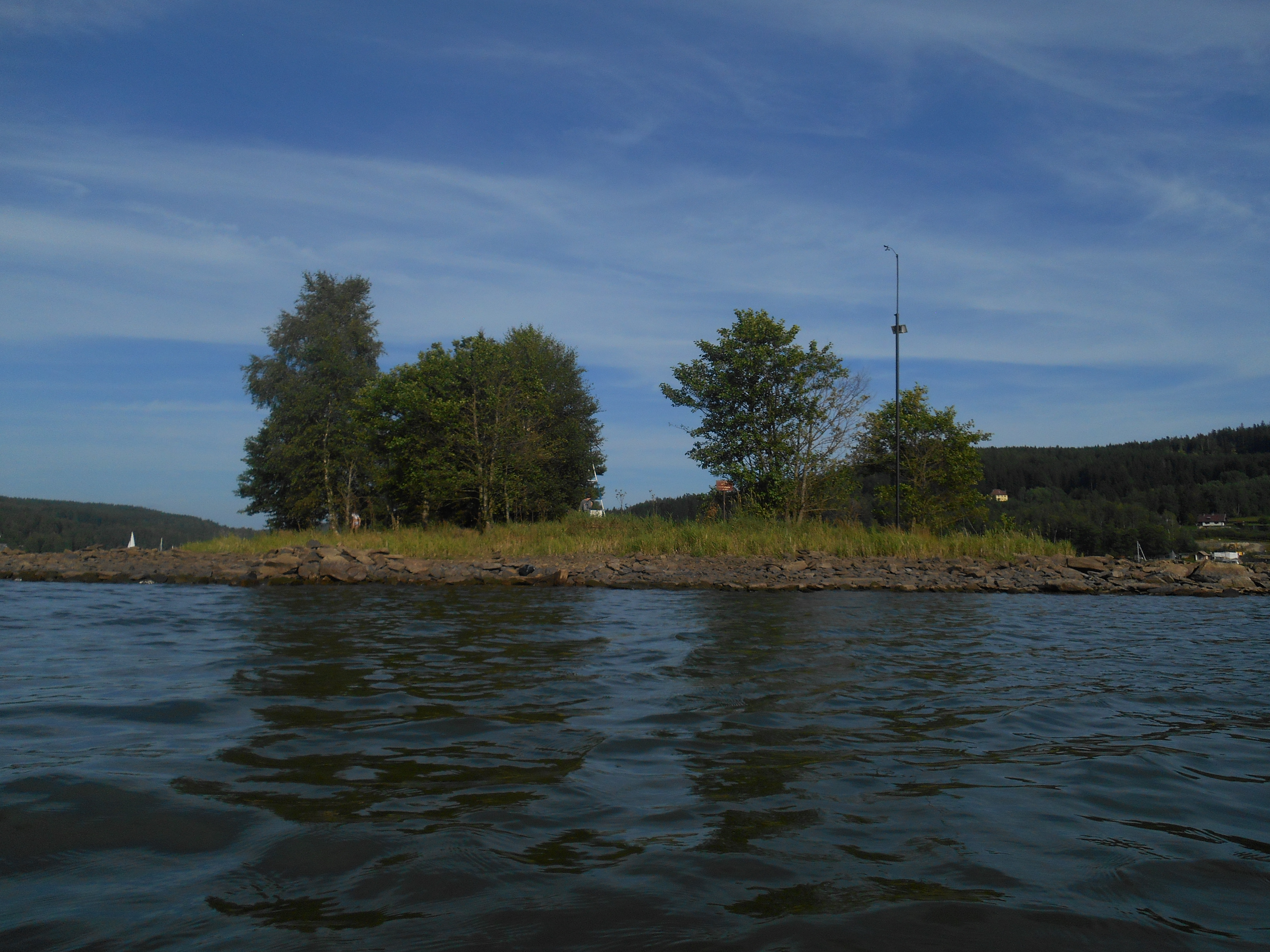 Králičí ostrov